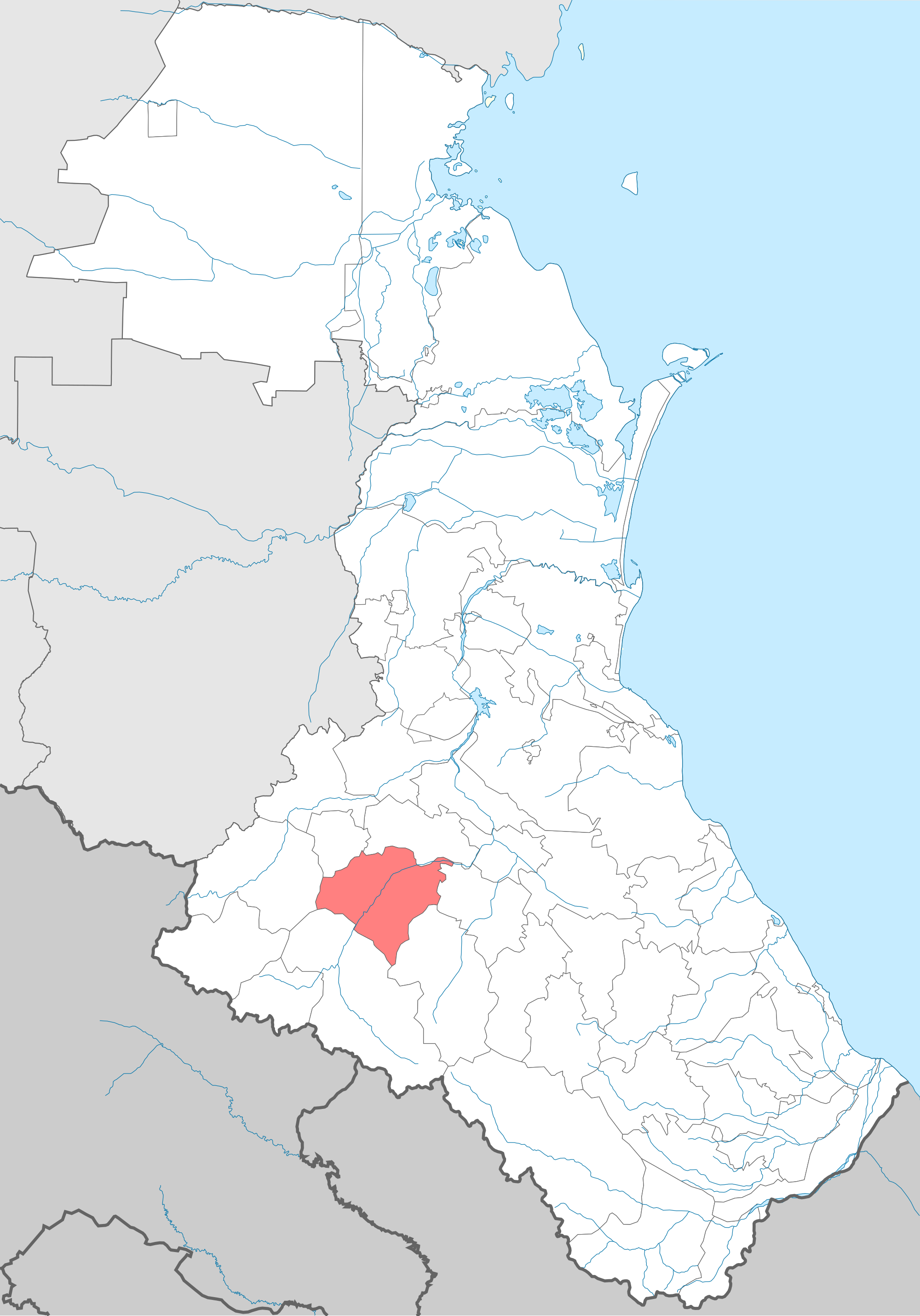 Shamilsky district locator map